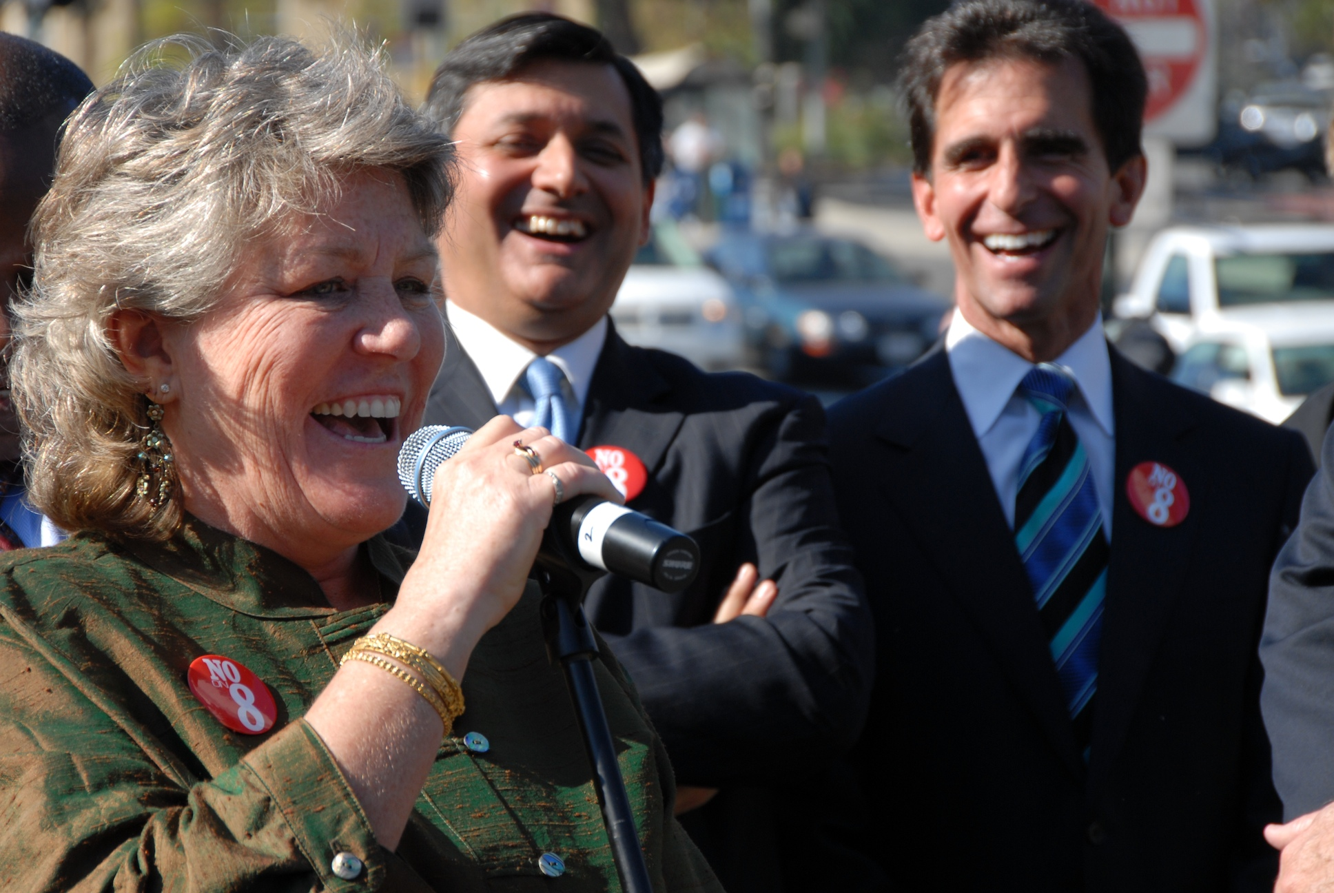 W:Anne Kronenberg speaks at Harvey Milk Streetcar Dedication beside W:Mark Leno (far right)